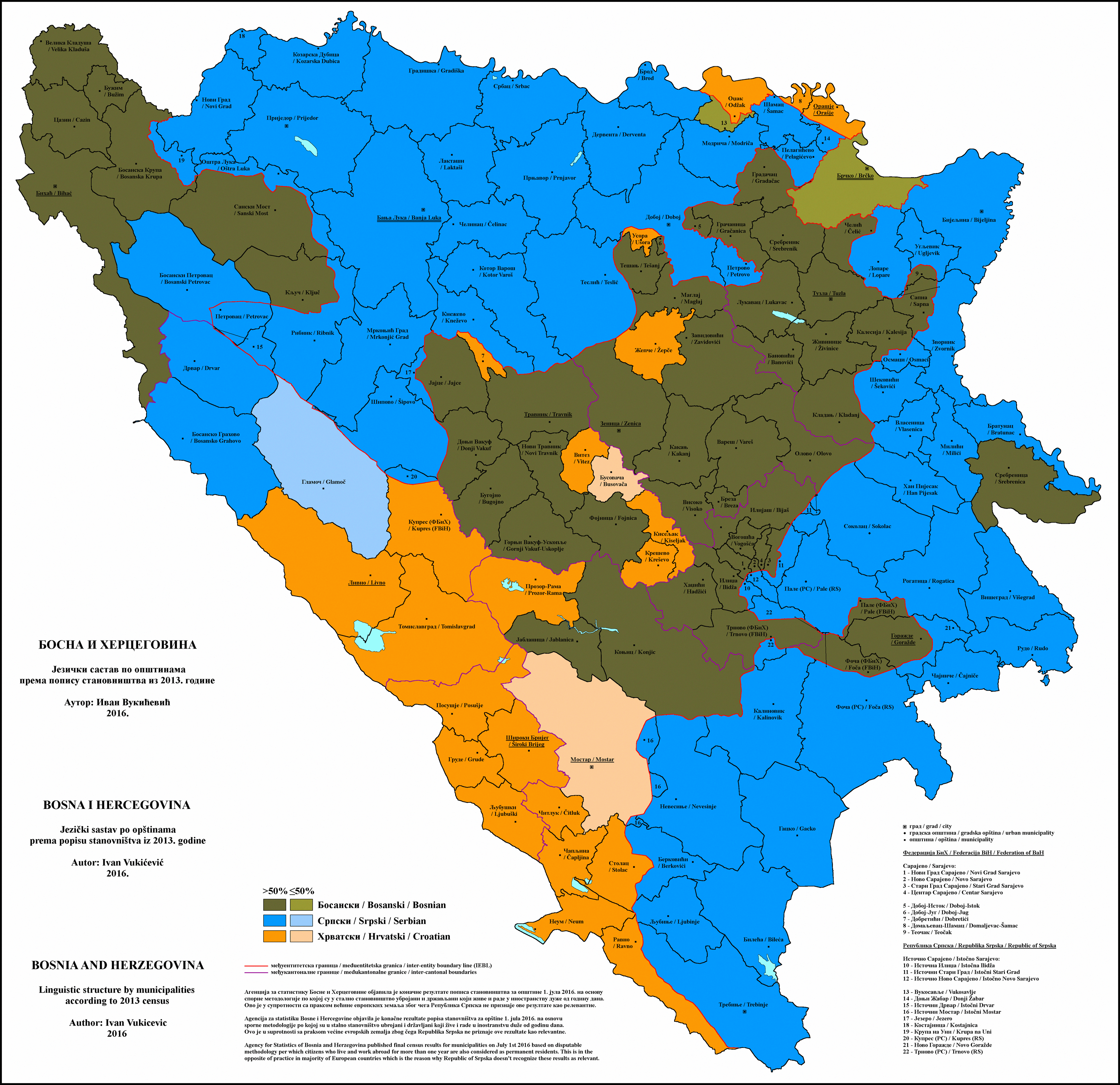 Linguistic structure of Bosnia and Herzegovina by municipalities 2013. Authorː Ivan Vukicevic - Sources: - Census of population, households and dwellings in Bosnia and Herzegovina, 2013 - Final results, Agency for statistics of Bosnian and Herzegovina, 1st of July 2016. - EU legislation on the 2011 Population and Housing Censuses, Eurostat, 2011. Recommendations for status of permanent residents followed by majority of EU member and candidate countries on page 66, Topic: Place of usual residence, paragraph (d)ː An institution shall be taken as the place of usual residence of all its residents who at the time of the census have spent, or are likely to spend, 12 months or more living there. - Public announcement, 4th of July 2016, Republic of Srpska Institute of Statistics, 4th of July 2016. With this announcement institute disputes the methodology used by Agency for statistics of Bosnia and Herzegovina.